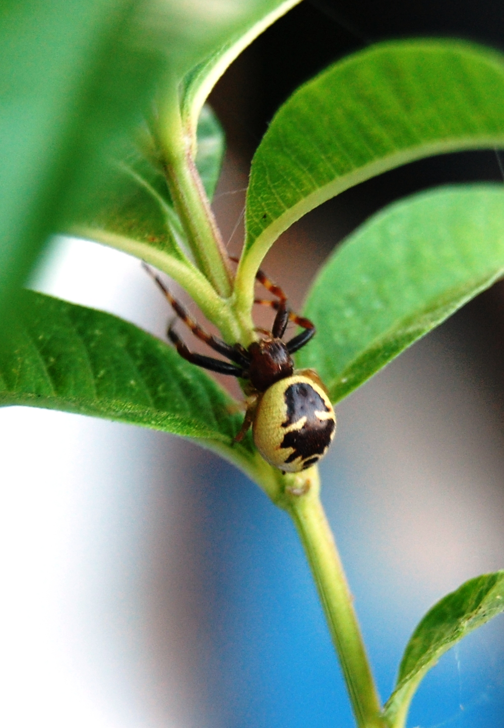 Synema globosum (Thomisidae)